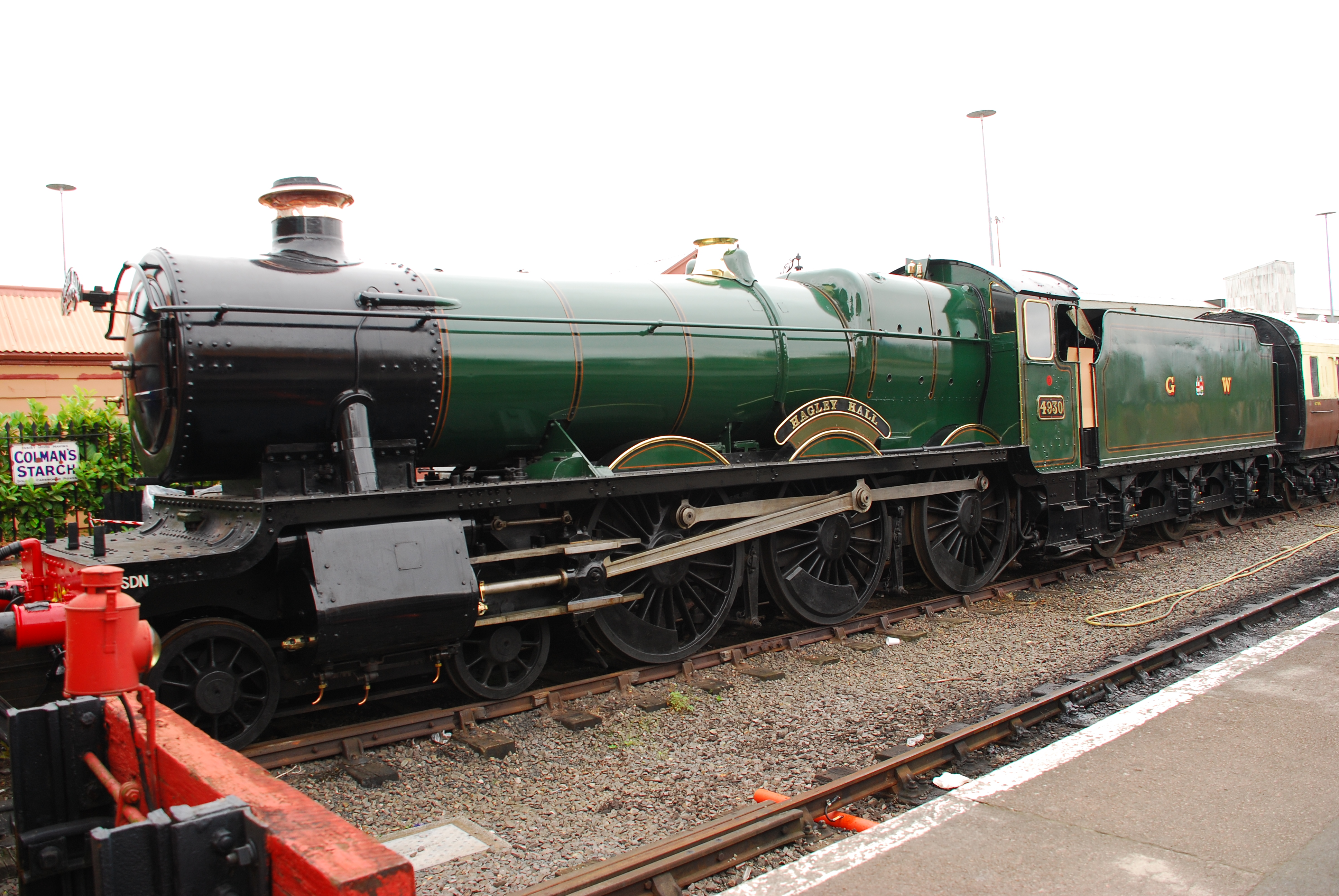 GWR 4900 Class number 4930 "Hagley Hall" at Kidderminster Town railway station